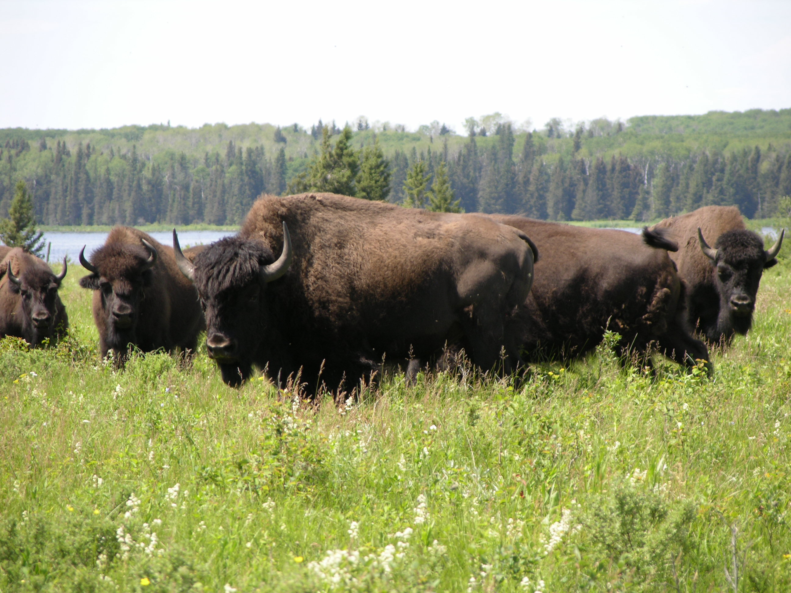 Bison herd at Lake Audy in Riding Mountain National Park, Manitoba